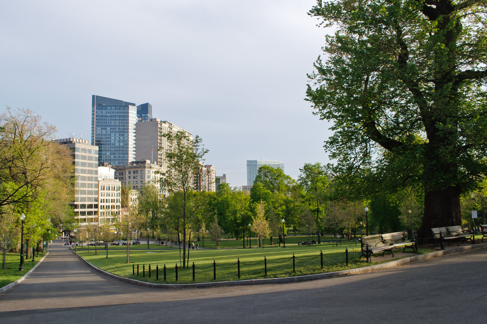 In the Boston area, urban planning often followed that of 17th Century England, where the settlers hailed from. Boston Common is one such feature; in English towns, a "common" is a common area of land that the residents could use on a communal basis for agricultural, grazing, and other uses. Boston Common has the distinction of being America's oldest urban park, dating back to 1634.